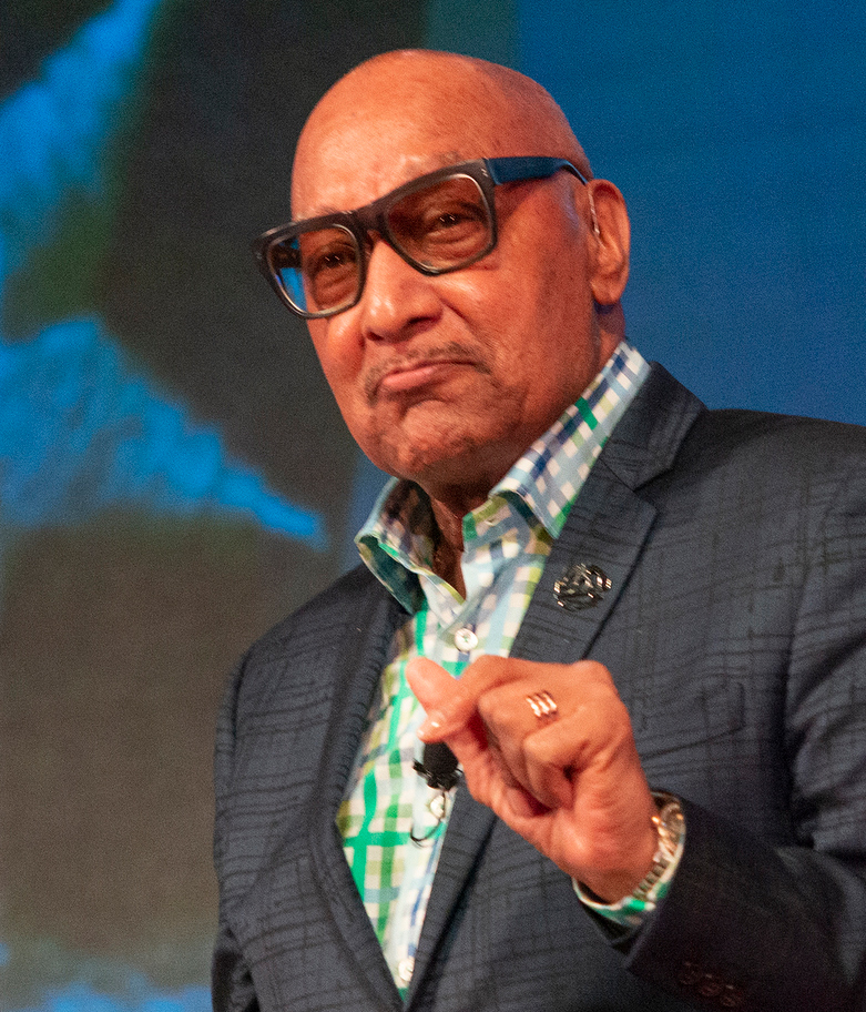 Some of Motown's biggest stars recall the beginnings of Motown 60 years ago as part of The Summit on Race in America at the LBJ Presidential Library on Wednesday, April 10, 2019. Duke Fakir, founding member of The Four Tops; Claudette Robinson, member of The Miracles; and Mary Wilson, founding member of The Supremes, discuss how Motown forever changed American music, business, and perceptions of African-Americans. Moderating the panel is Bob Santelli, founding executive director of the GRAMMY Museum.